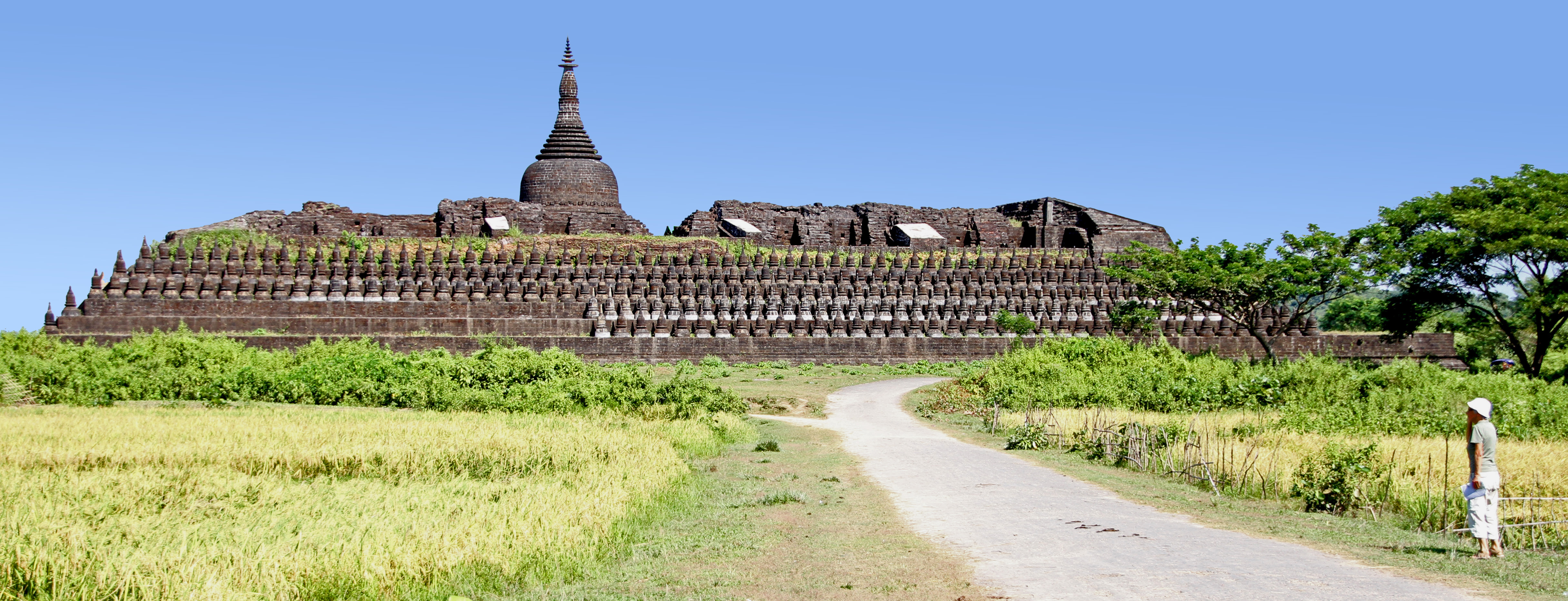 Koe Thaung temple in Mrauk U, Myanmar.